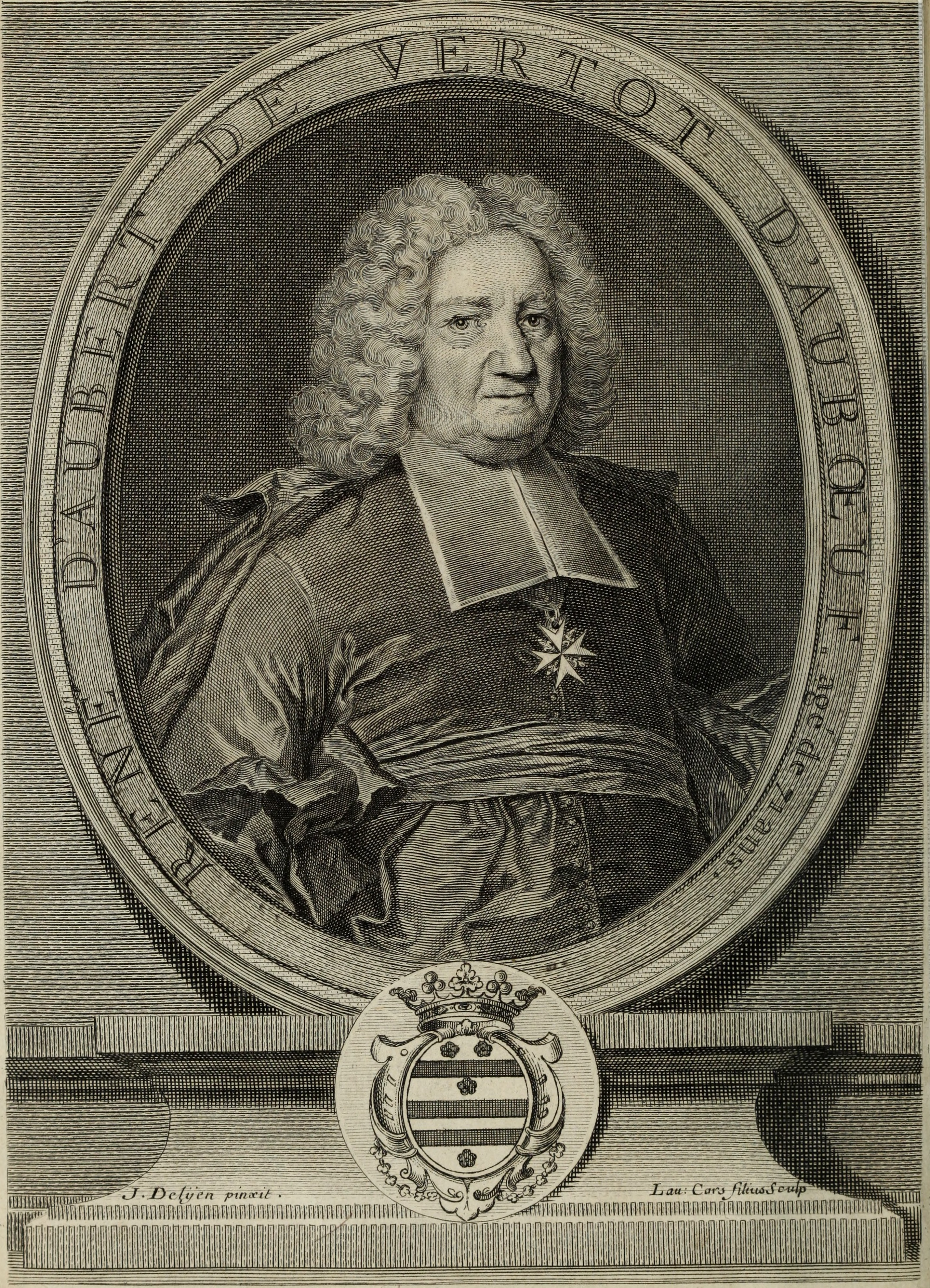 Title: Histoire des Chevaliers Hospitaliers de S. Jean de Jerusalem : appellez depuis les Chevaliers de Rhodes, et aujourd'hui les Chevaliers de Malthe Year: 1726 (1720s) Authors: Vertot abbé de, 1655-1735 Cavagna Sangiuliani di Gualdana, Antonio, conte, 1843-1913, former owner. IU-R Subjects: Knights of Malta Publisher: A Paris : Chez Rollin ... Quillau Pere & Fils ... Desaint ... Text Appearing Before Image: ^^ç^^l—m Digitized by the Internet Archive in 2012 with funding from University of Illinois Urbana-Champaign *•*.« I il JU m^»3*» *y*»8n JO Text Appearing After Image: HISTOIRE DES CHEVALIERS HOSPITALIERS D E S JEAN DE JERUSALEM, APPELLEZ DEPUIS LES CHEVALIERS DE RHODES. ET AUJOURDHUI LES CHEVALIERS DE MALTE. Var M. lAbbé DE VERTOT,^ tAcadémiedes Belles Lettres. TOME PREMIER.histoiredescheva01vert